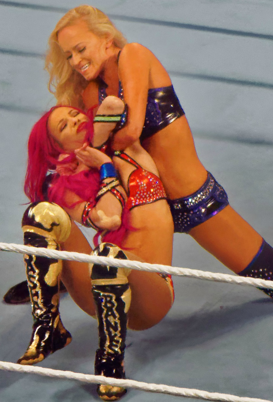 Summer Rae performing one of her signature moves the "Cobra Clutch" on Sasha Banks the night after WrestleMania 32 in April 4, 2016.